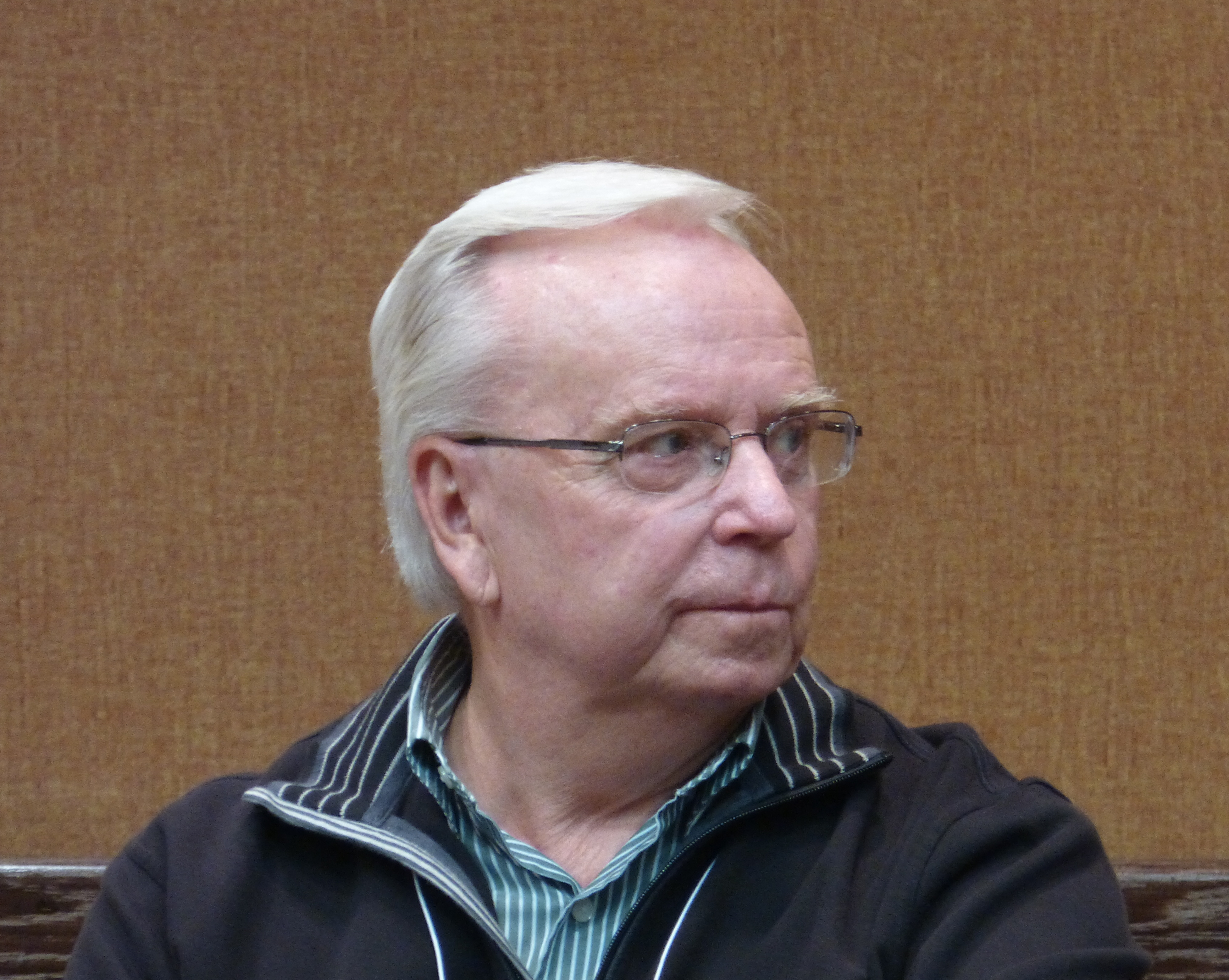 A photo of Tiger Fafara